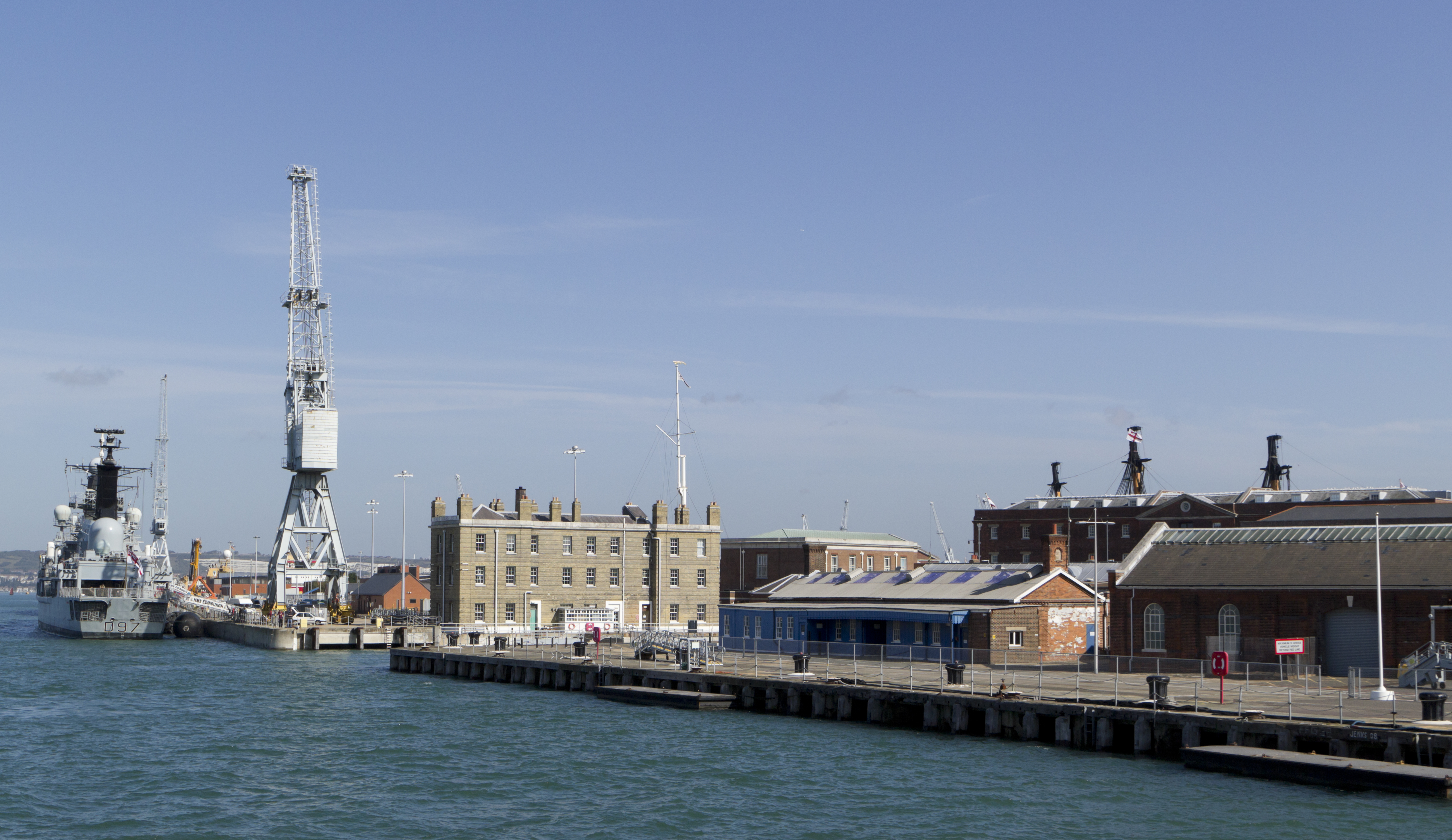 Portsmouth Harbour